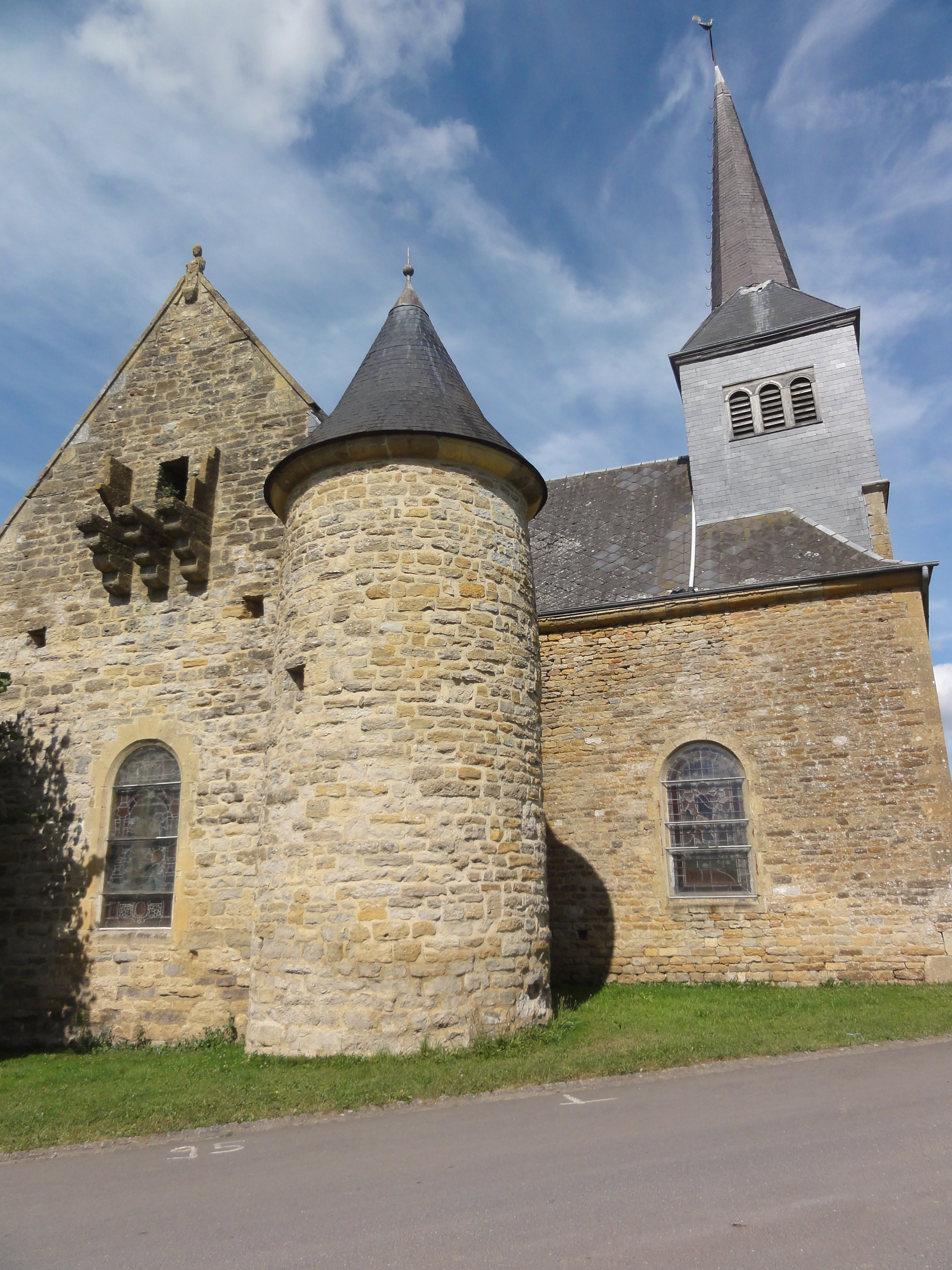 Église Saint-Étienne de Laval-Morency